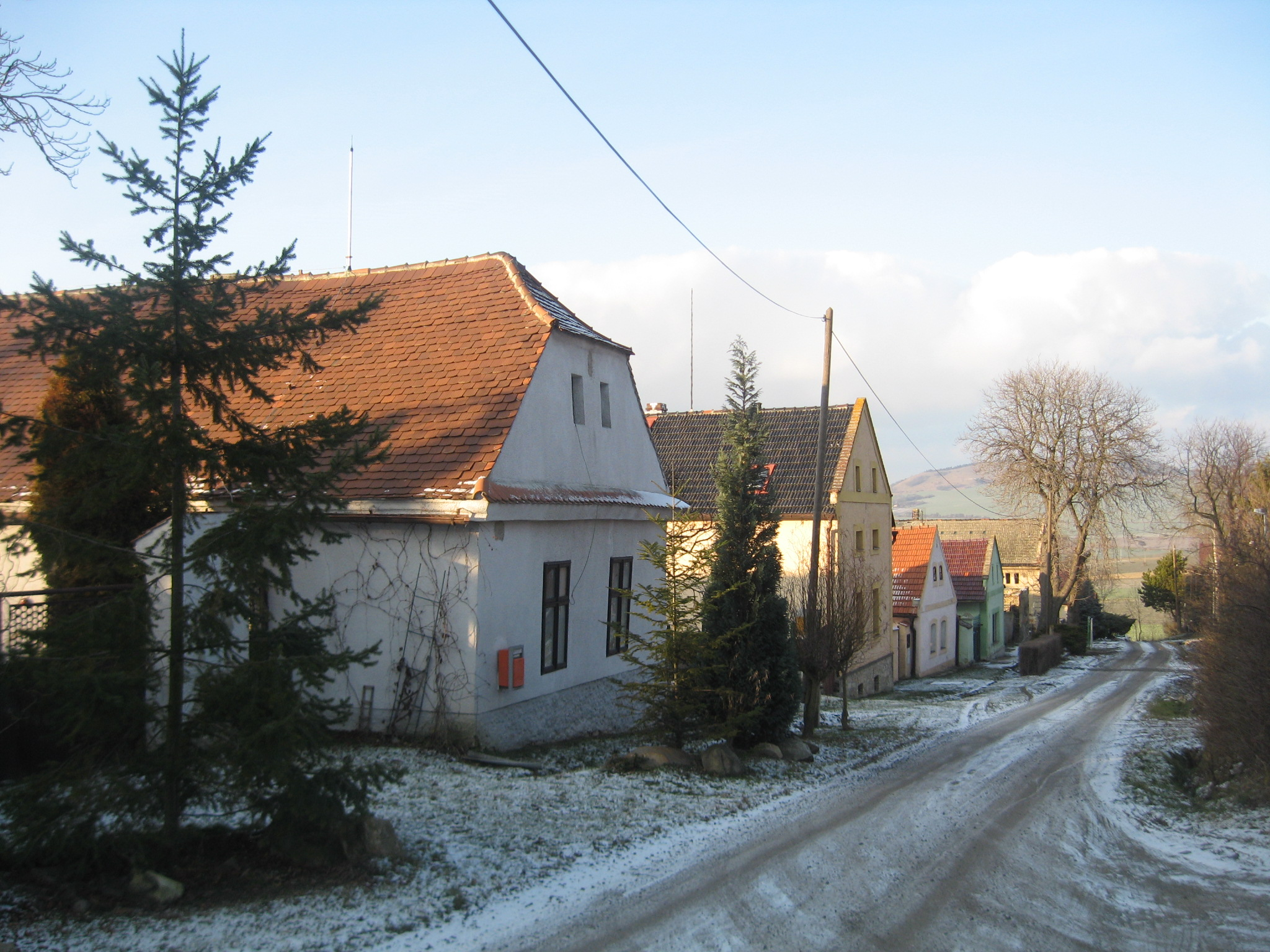 Mnichov - district Louny